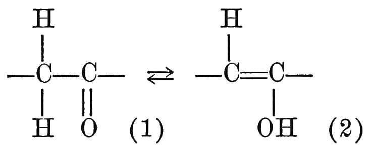 Dynamic isomerism